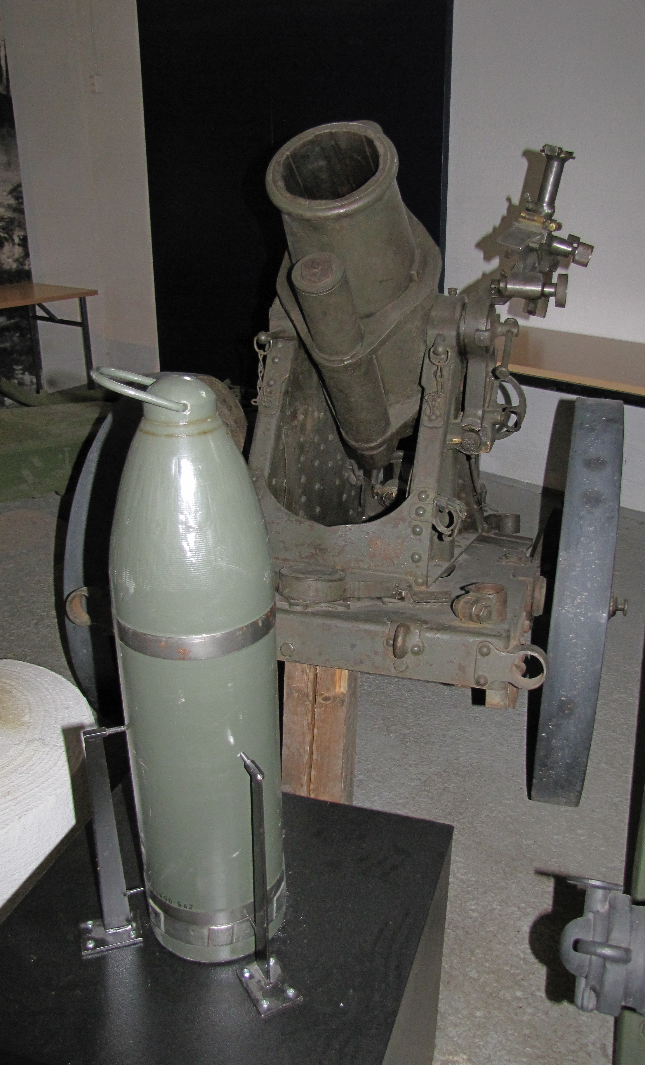 German 17 cm mittlerer Minenwerfer n/A and shell in Hämeenlinna artillery museum. Serial number 2020, manufactured in 1916 by Rheinische Metalwaaren u. Maschinenfabrik Düsseldorf. One of two such weapons used by Finnish army.